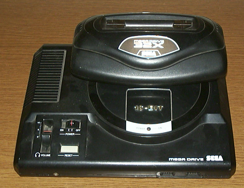 A PAL Mega Drive combined with a PAL 32X to build up the classic Mega Drive 32X.